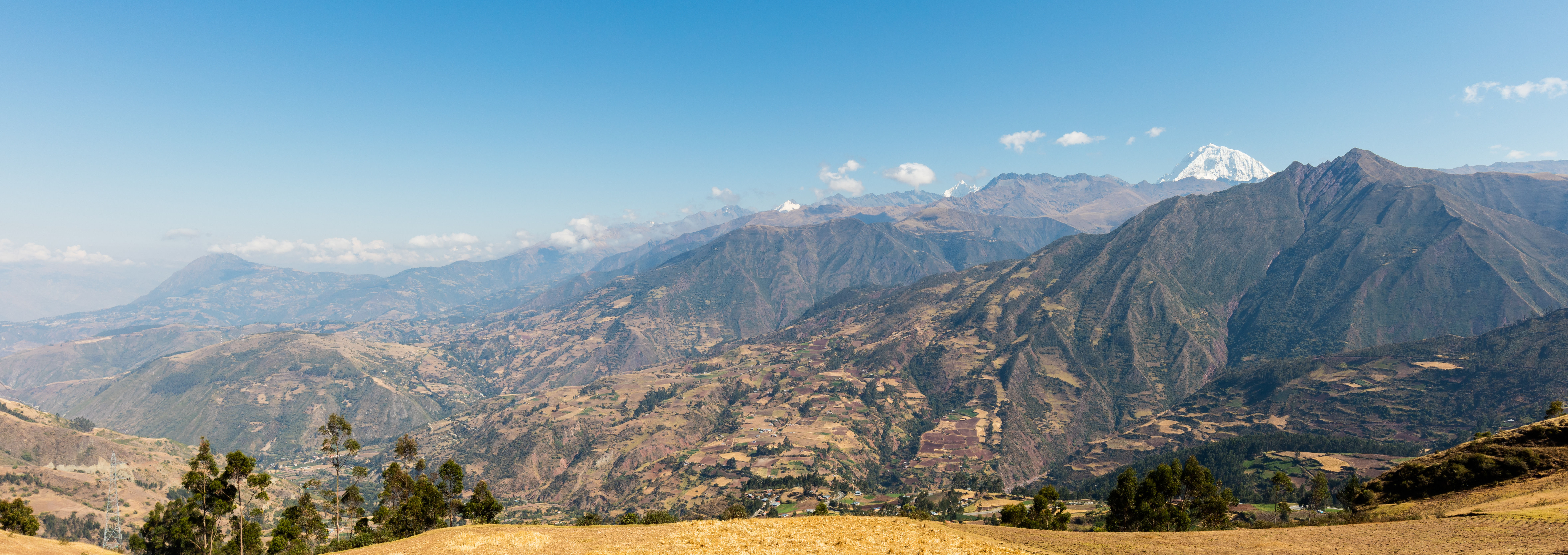 View of the Andes, Limatambo, Cuzco, Peru